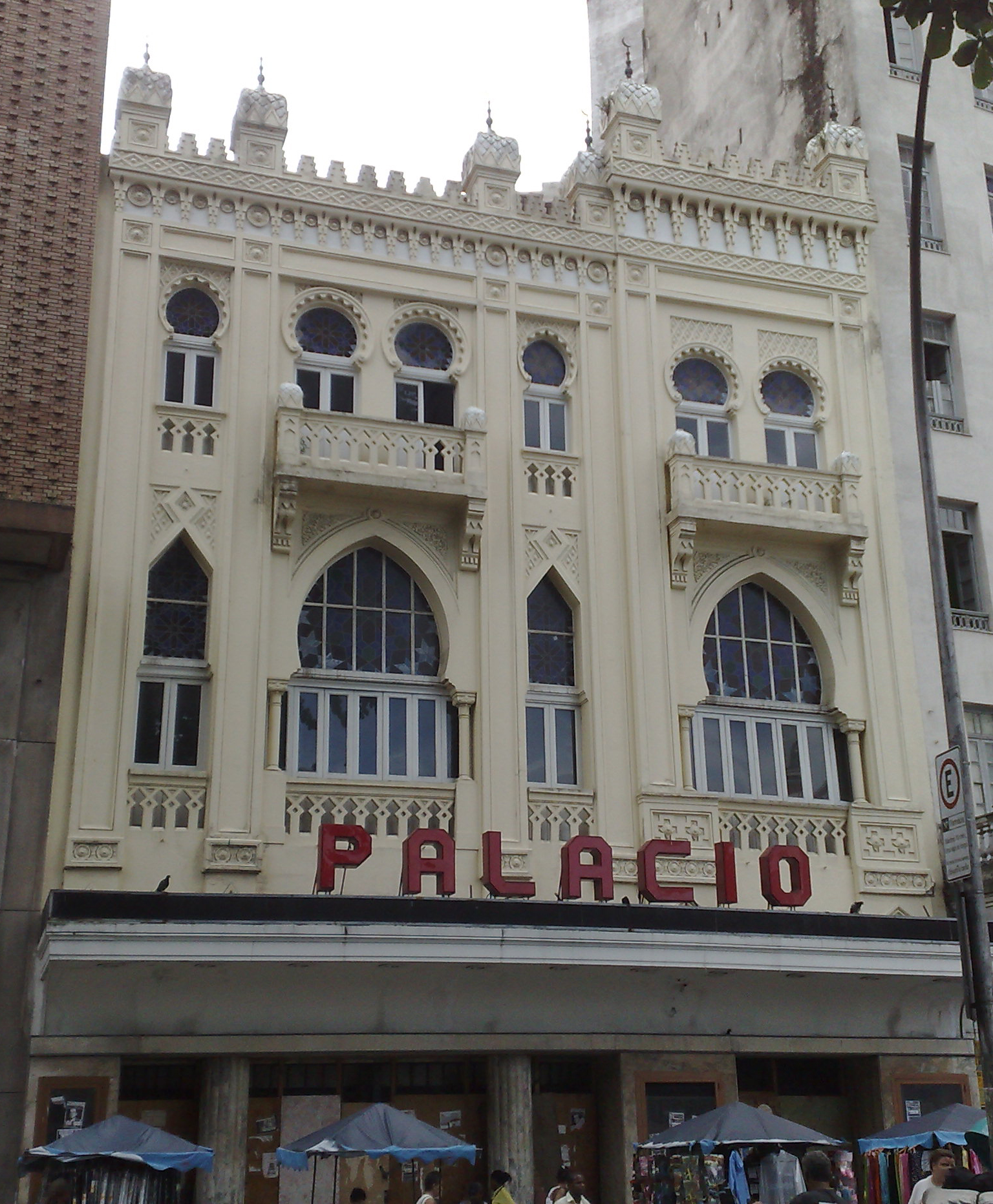 Cine Palacio, Rio de Janeiro city, Brazil